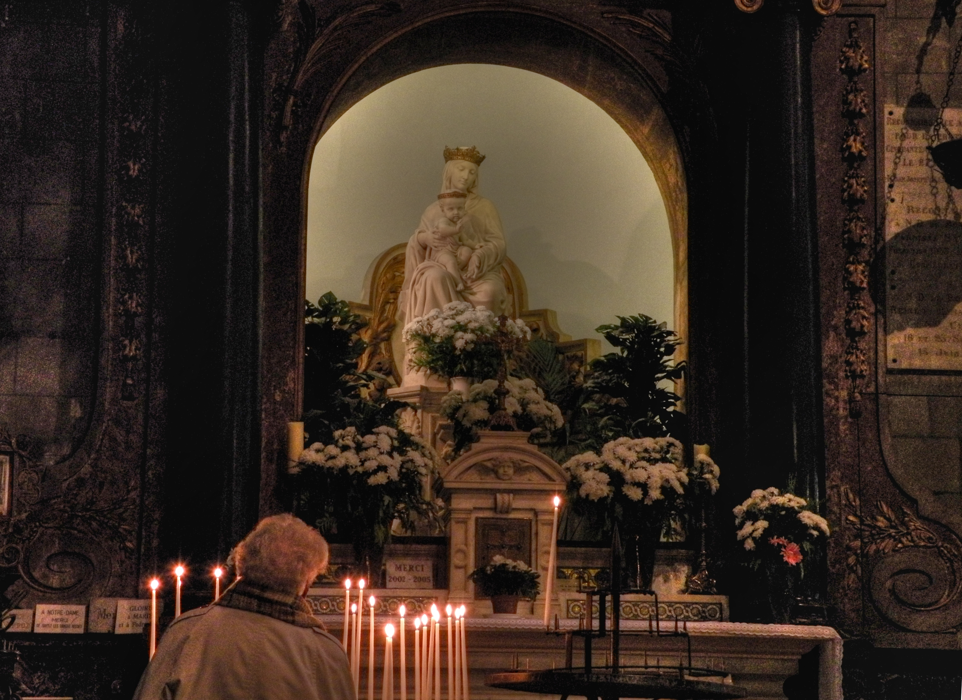 Statue of Notre-Dame-de-Bon-Secours in Church Sainte-Croix, Nantes.